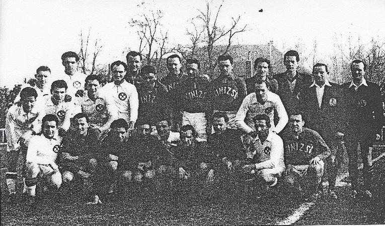 Dorog won 5:0 over Ferencvaros